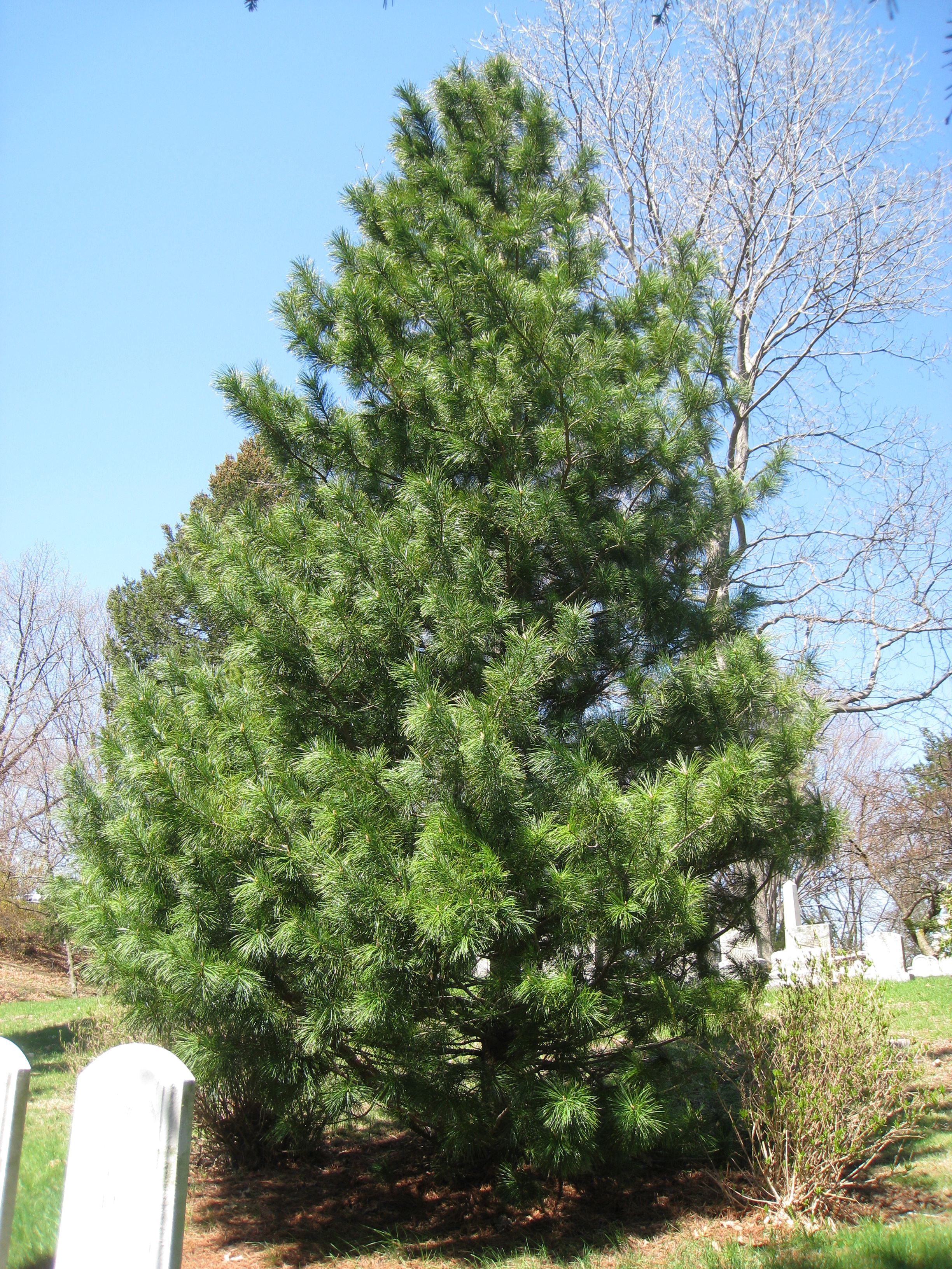 Pinus koraiensis, Mount Auburn Cemetery, Cambridge, Massachusetts, USA.